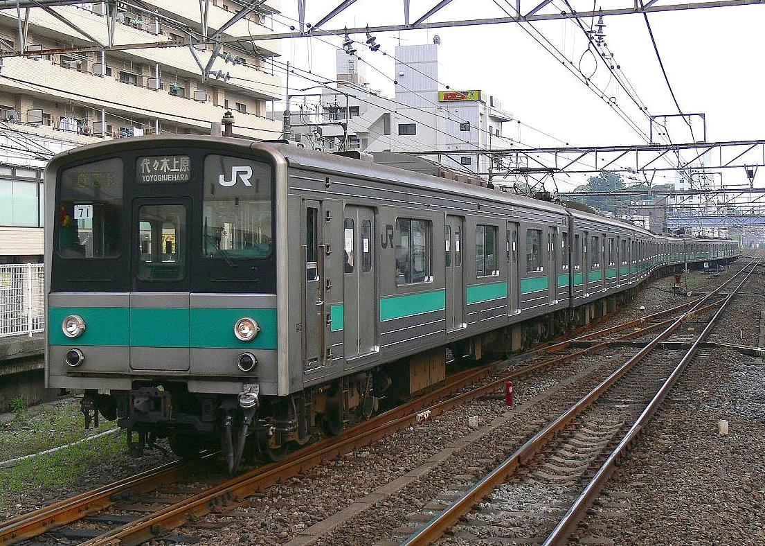 JR East 207-900 series Joban Line EMU at Matsudo Station in Chiba Prefecture, Japan